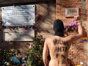 Vstajniške socialne delavke, fotografija za feministični koledar